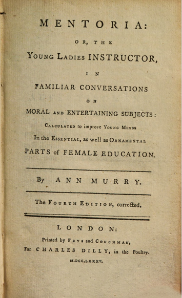 its a book